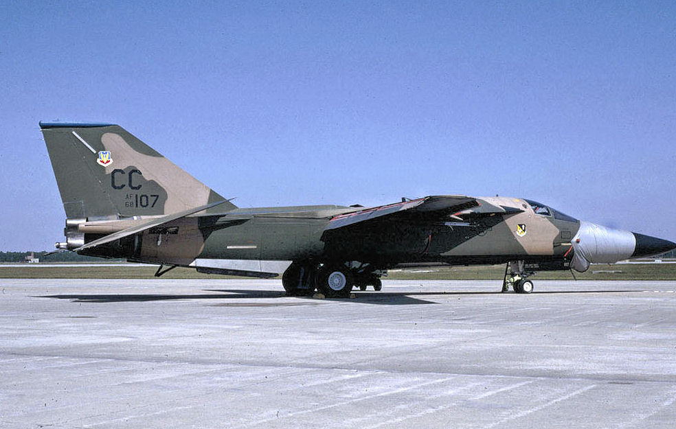 General Dynamics F-111D 68-107 481st Tactical Fighter Squadron, 27th Tactical Fighter Wing, Cannon AFB, New Mexico Aircraft retired to AMARC as FV0147 Nov 19, 1992. Still on AMARC inventory Jan 15, 2008